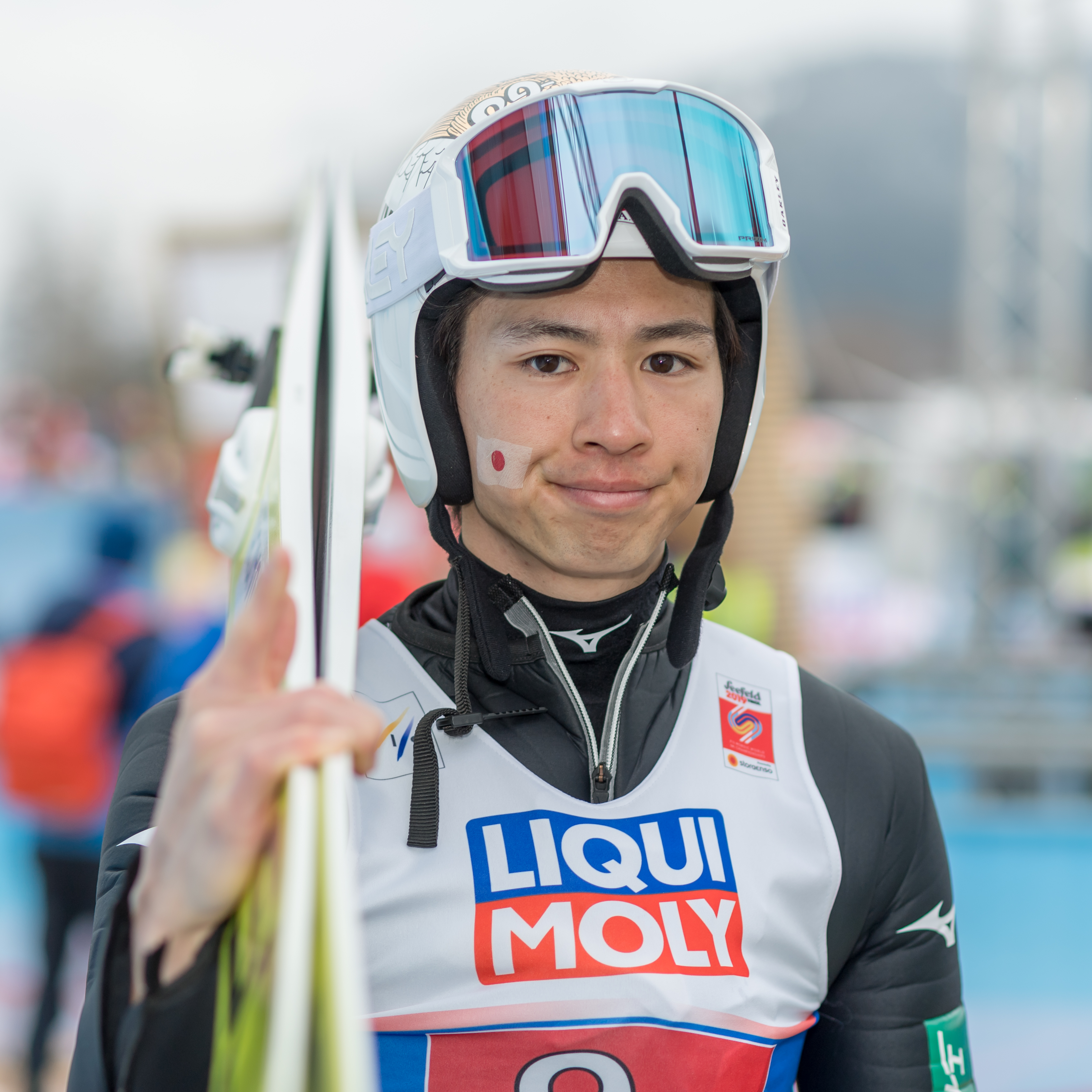 Seefeld, March 2, 2019: FIS Nordic World Ski Championships, Nordic Combined Team HS 109.